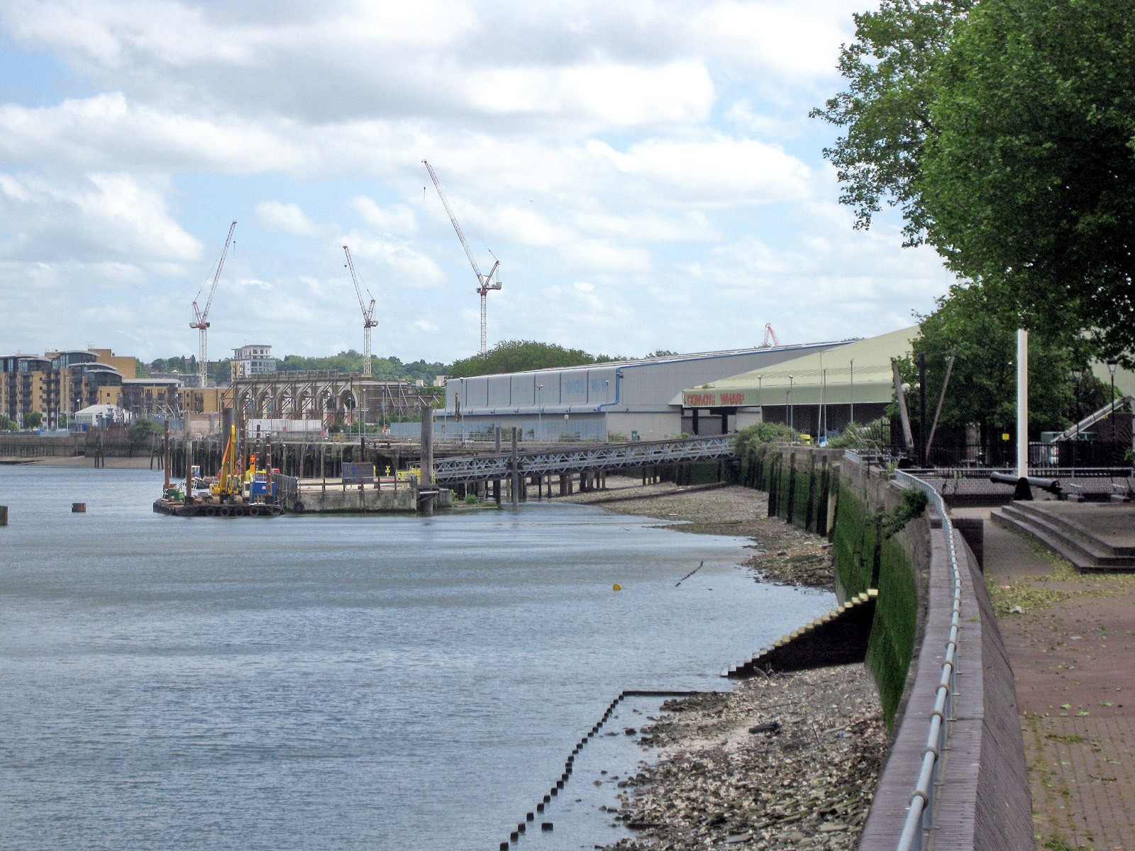 View of Convoys Wharf, blocking the Thames Path at Deptford.